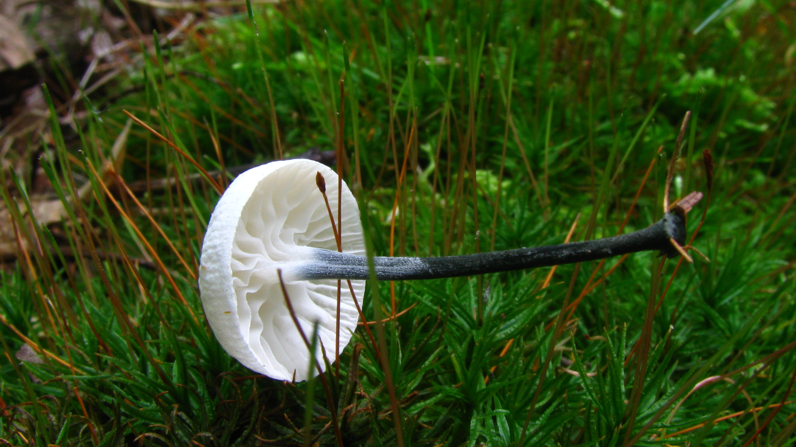 Tetrapyrgos nigripes Location: Wayne National Forest, Athens Co., Ohio, USA